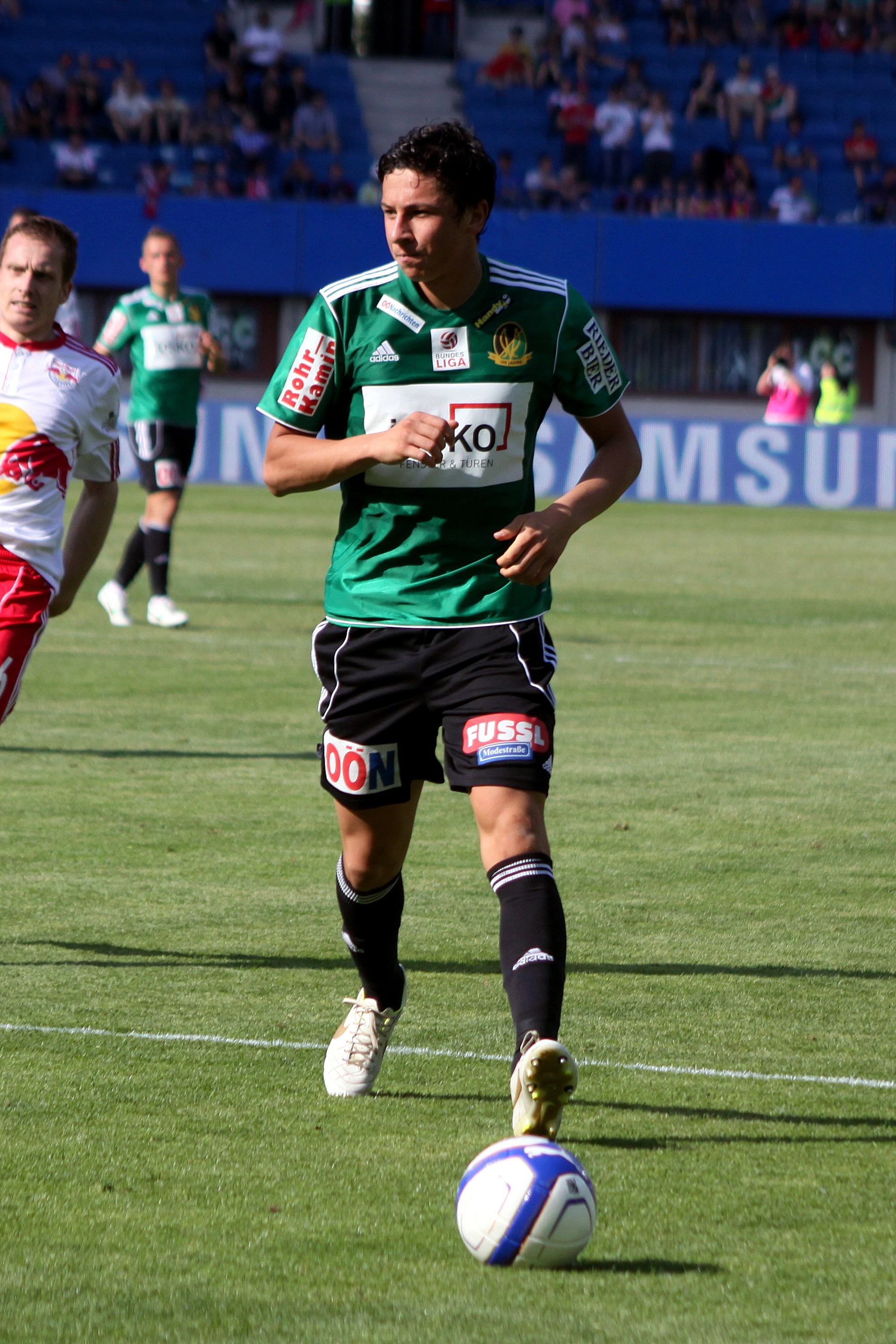 Final of the 2011–12 Austrian Cup FC Red Bull Salzburg vs. SV Ried at 2012-05-20 in the Ernst-Happel-Stadion, Vienna 3:0 (2:0). Object location48° 12′ 25.8″ N, 16° 25′ 15.42″ E